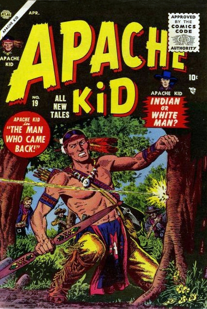 Cover of "Apache Kid" No 19, published by Marvel, 1956. In public domain because it wasn't renewed. See Copyright Renewal Database